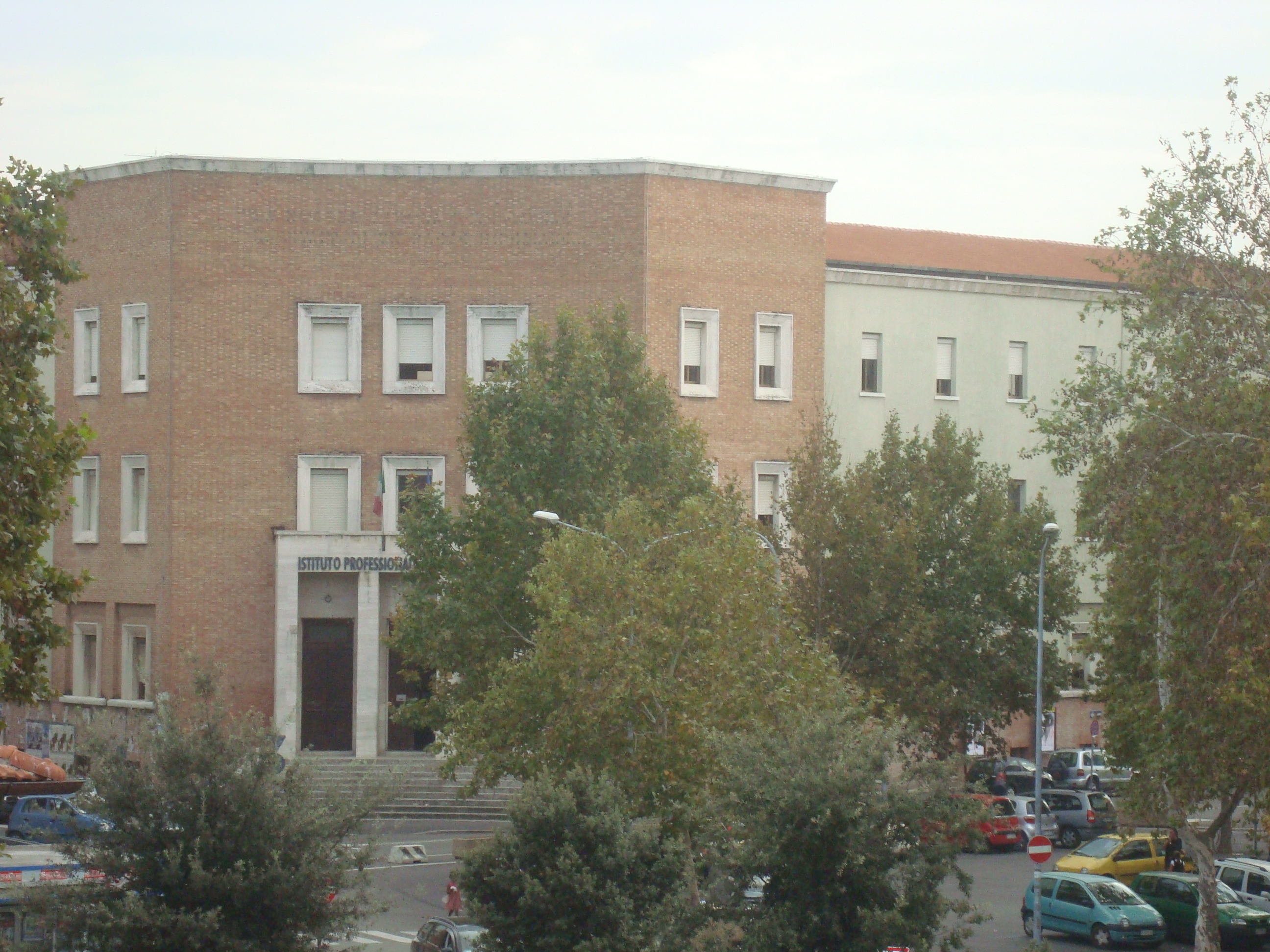 Umberto Tombari, building of former Regia Scuola Tecnica Industriale in Grosseto